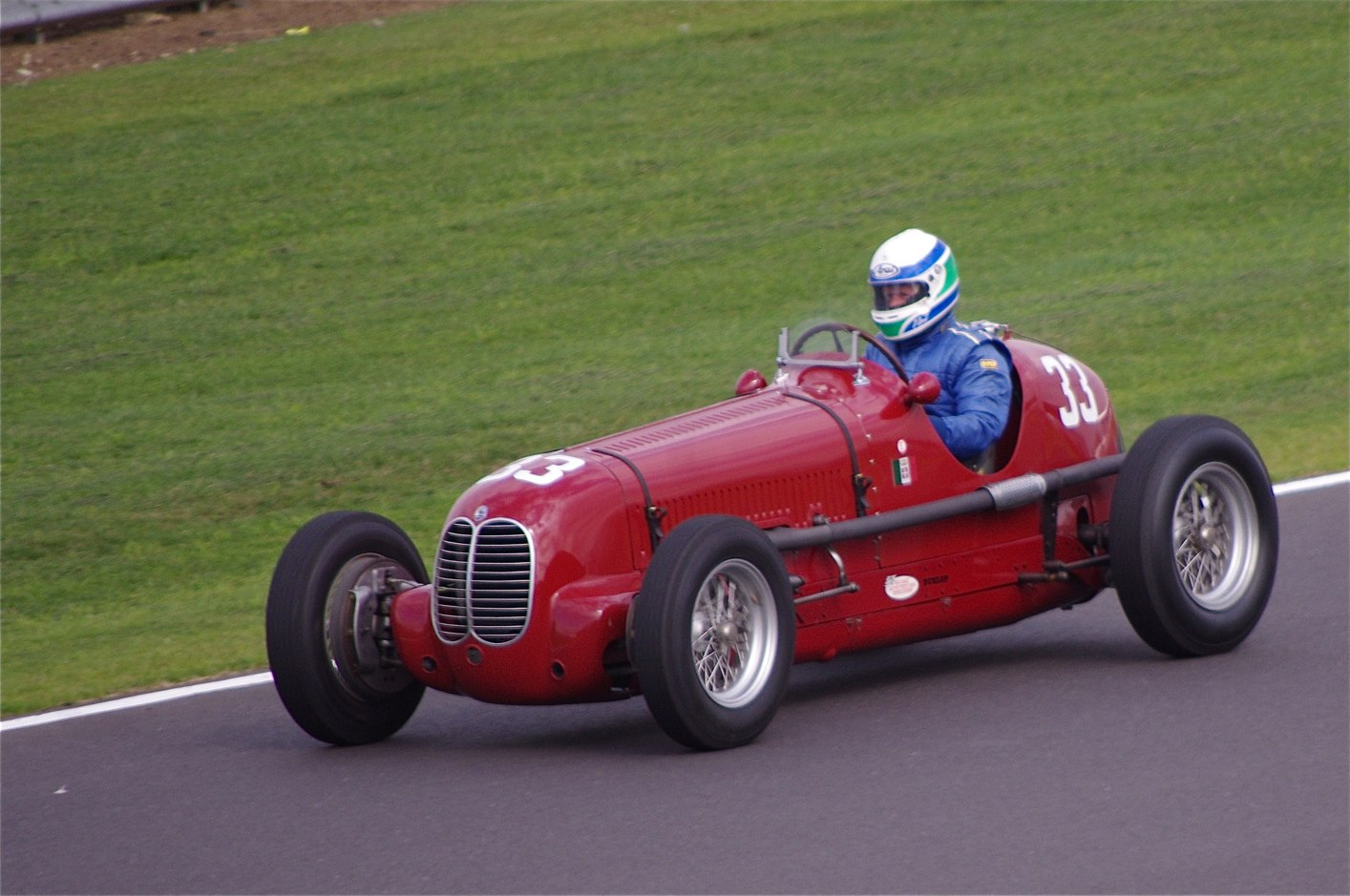 Silverstone Classic 2011